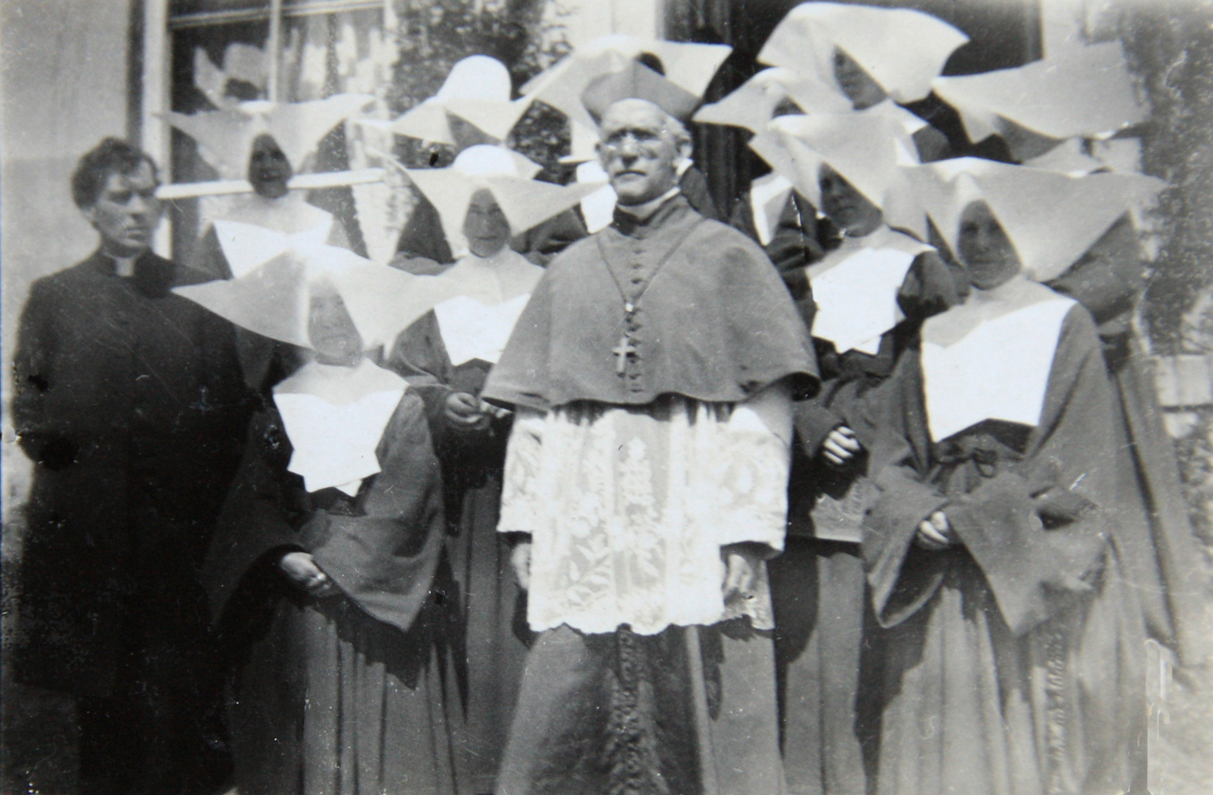 Rev. Patrick MacSwiney CC. M.A. (1885-1940) was curate in Kinsale, County Cork, Ireland from 1927-1940. He was photographed here with his bishop, Dr Daniel Cohalan, Bishop of Cork and Ross and Sisters of Charity from Kinsale